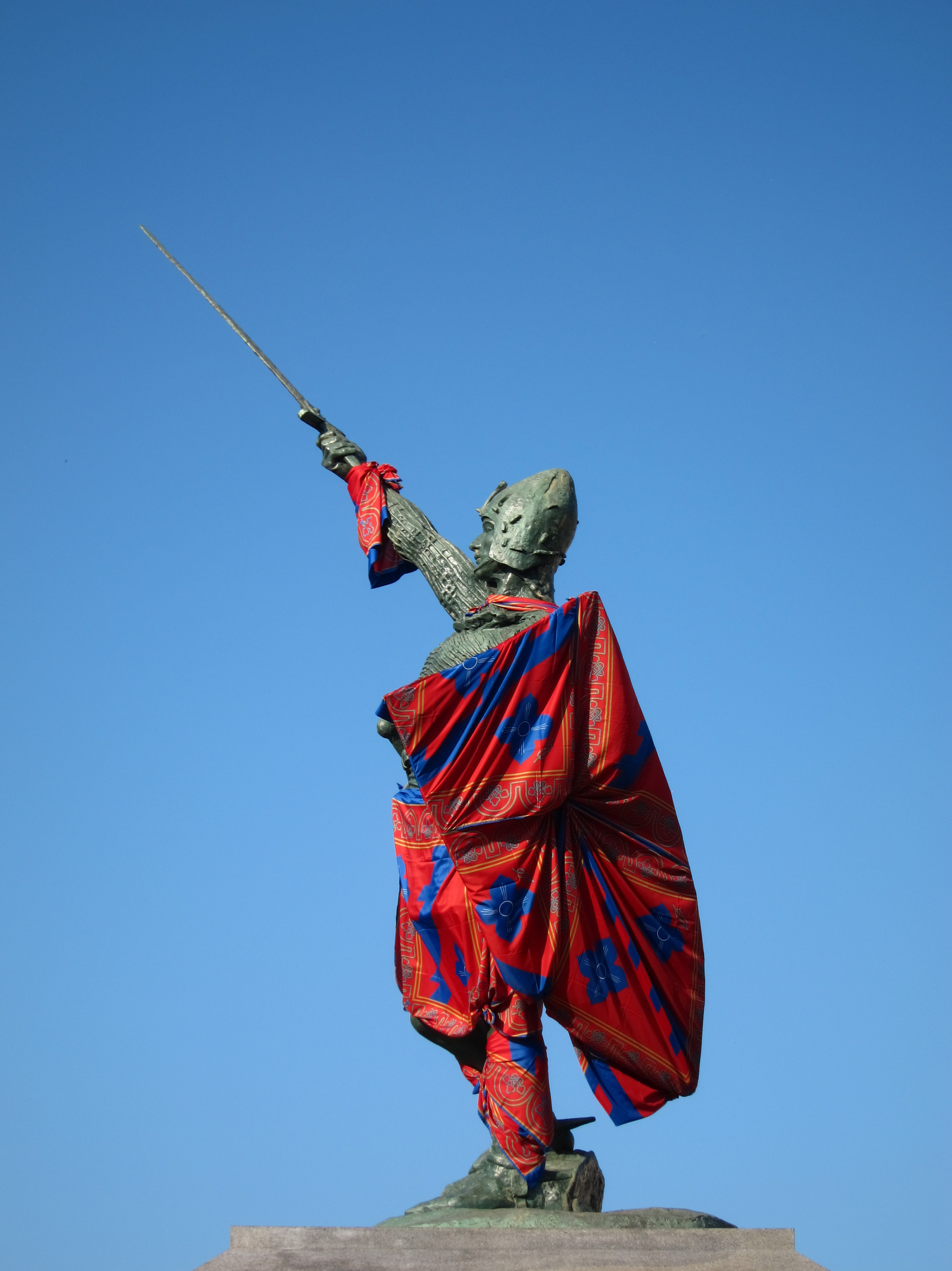 Picture of the monument Monumento al Guerriero (litterally: monument to the warrior. The statue is also known as the monument to Alberto da Giussano) in Legnano. The statue is dressed with the flags of the contrada (district/ward) La flora which won the Palio di Legnano horse race in 2018. The statue is in the square Piazza Monumento in Legnano and was made by the sculptor Enrico Butti. The picture was taken on Juni the 1st 2018.